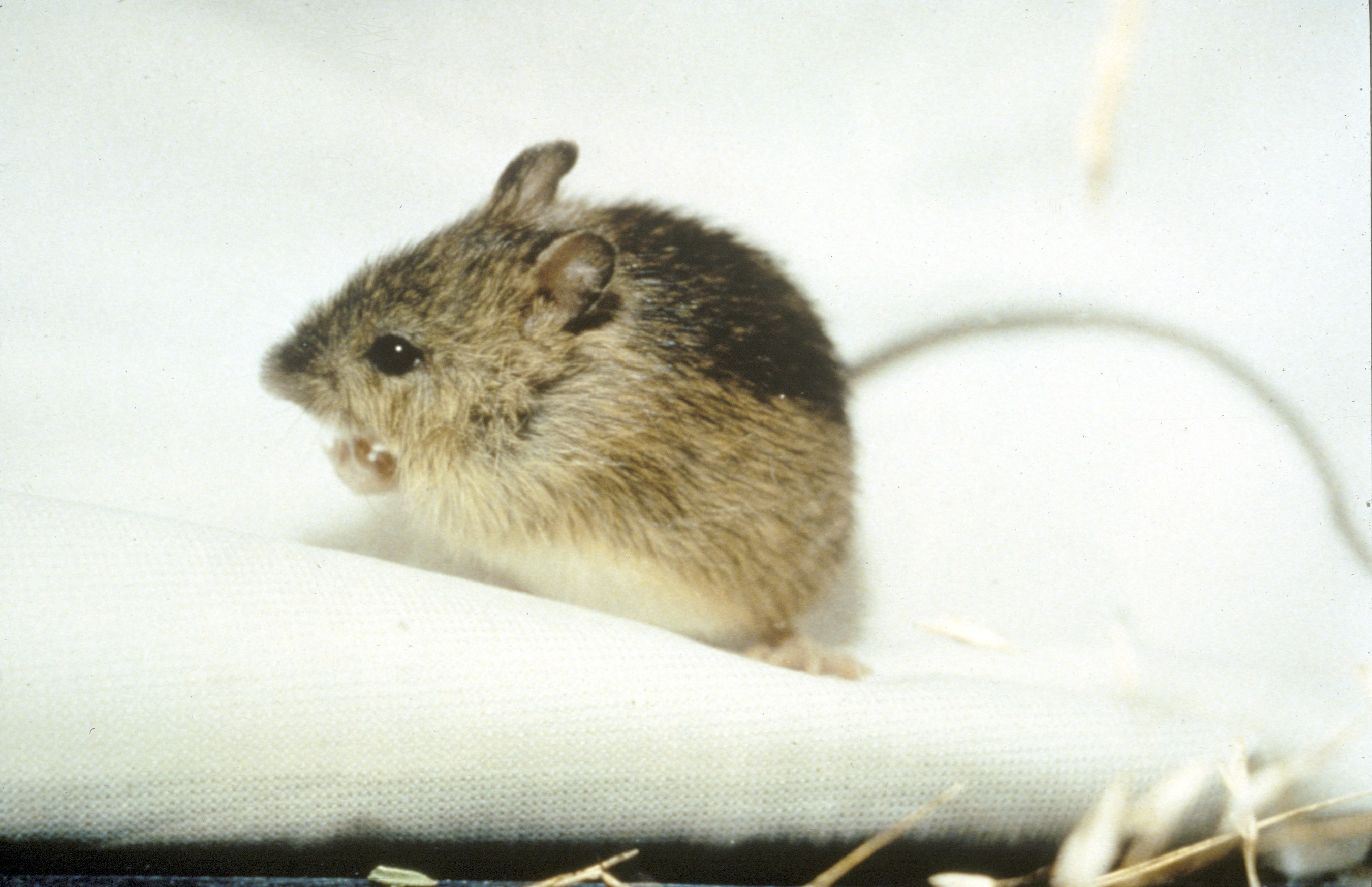 Prebles Meadow Jumping Mouse (Zapus hudsonius preblei)